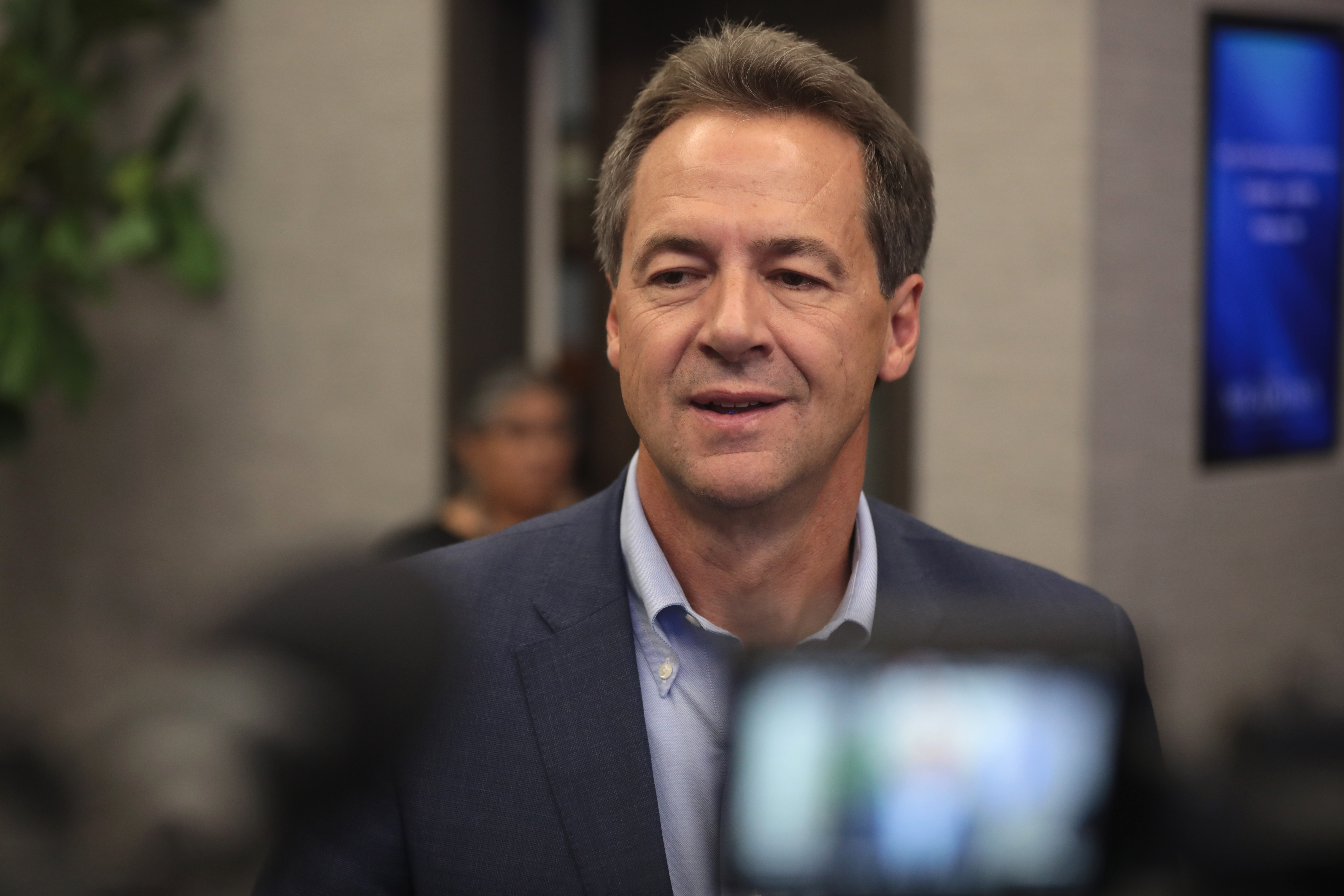 Governor Steve Bullock speaking with the media at the 2019 Iowa Federation of Labor Convention hosted by the AFL-CIO at the Prairie Meadows Hotel in Altoona, Iowa.